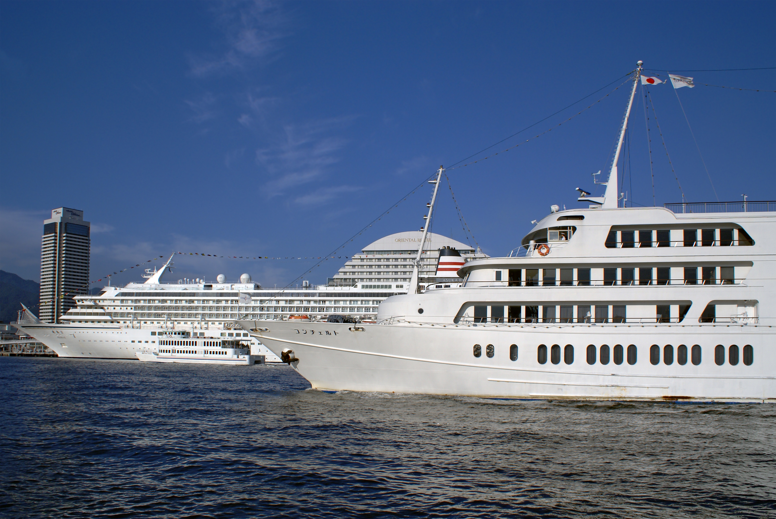 "Concerto" and "Loyal Princess" and "AsukaII" at the Kobe harbor ( Kobe, Hyogo prefecture, Japan)